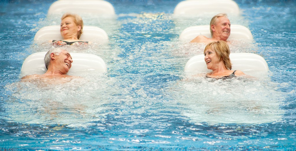 Thermal Medicine